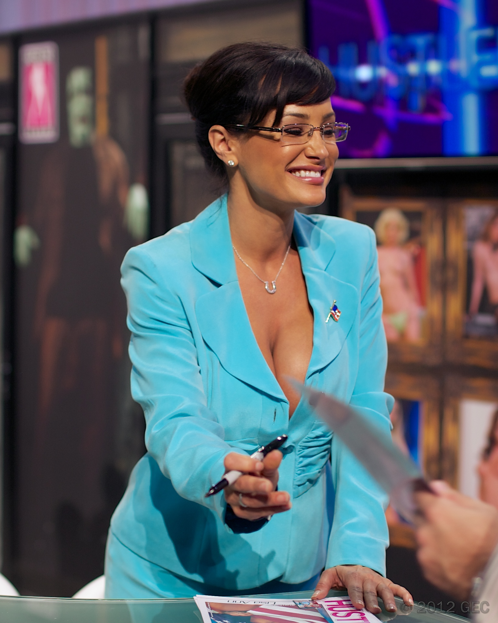 Lisa Ann as Palin '08 AEE.